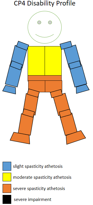 This image descriptions the spasticity athetosis level of a CP4 CP-ISRA classified sports person with cerebral palsy. It was created using information from .